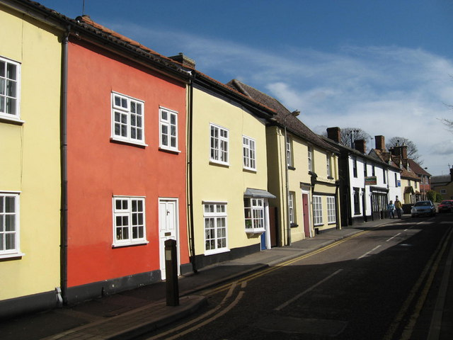 Village street, near to Linton, Cambridgeshire, Great Britain. Traditional housing along the main street in the village